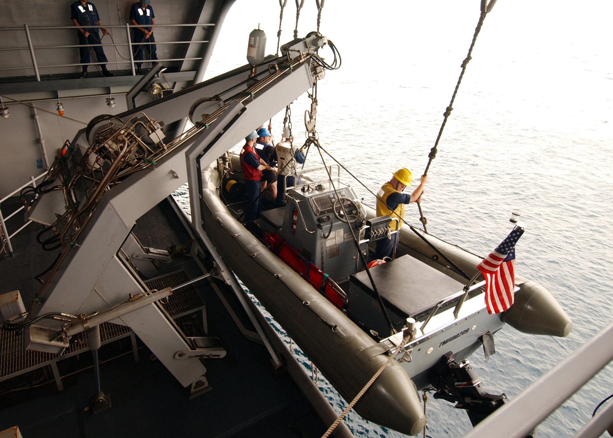 PERSIAN GULF (April 14, 2007) - Deck department Sailors and surface rescue swimmers perform emergency boat operations during a man overboard drill aboard Nimitz-class aircraft carrier USS Dwight D. Eisenhower (CVN 69). Eisenhower and embarked Carrier Air Wing (CVW) 7 are on scheduled deployment in support of Maritime Security Operations (MSO). U.S. Navy photo by Mass Communication Specialist Seaman Apprentice Jon Dasbach (RELEASED)